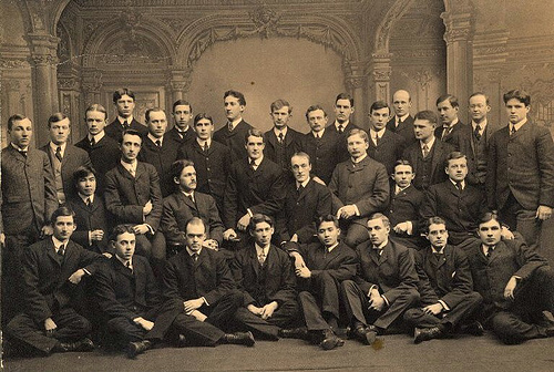 Photograph of the Class of 1904, Yale School of Forestry, Yale University, New Haven, Connecticut. Courtesy of the Yale University Manuscripts & Archives Digital Images Database. Retouched by MarmadukePercy.